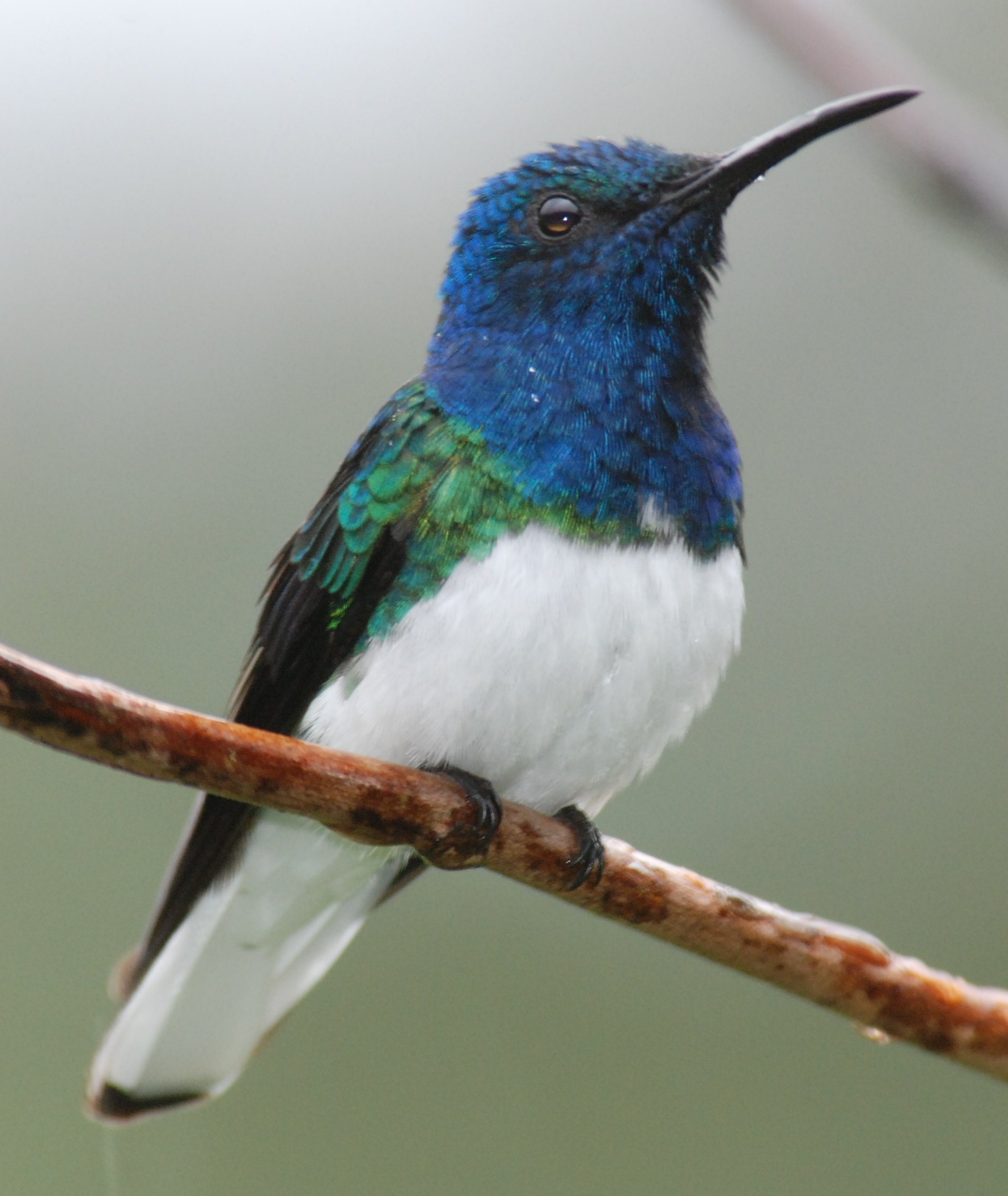 Male humingbird (Florisuga mellivora) seen at the Asa Wright Nature Center in Trinidad. When the rain came down, this bird made quite a show of preening himself. He also fiercely defended his territory from other males in the area.